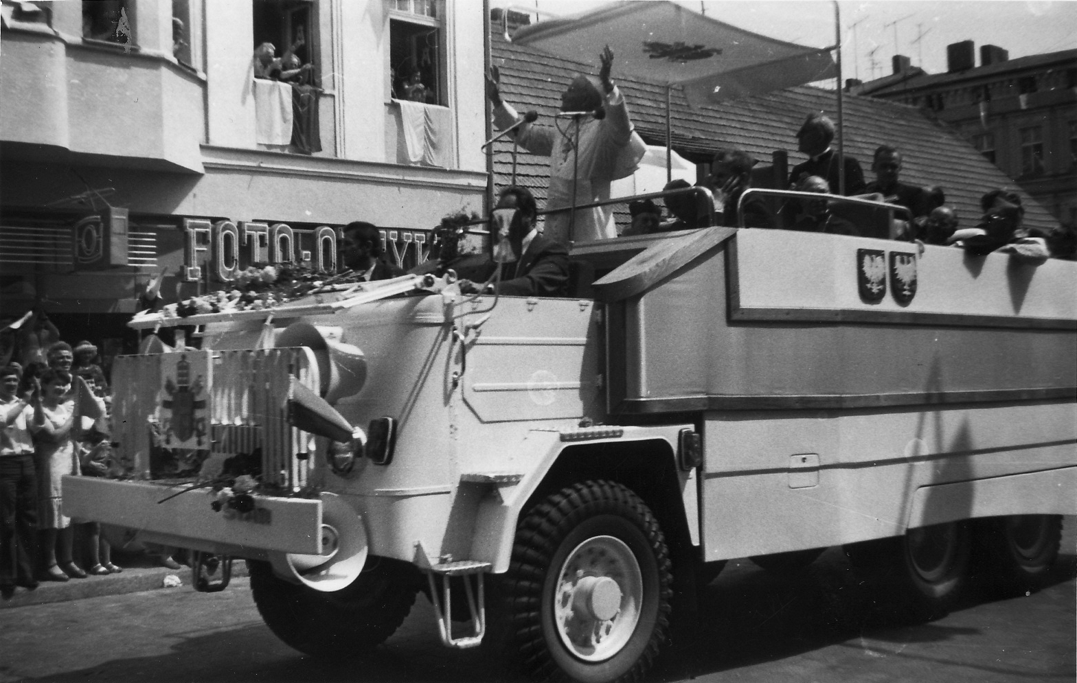 Ioannes Paulus II during his pilgrim to Poland in 1979. Photo taken in Gniezno, B. Chrobrego street.